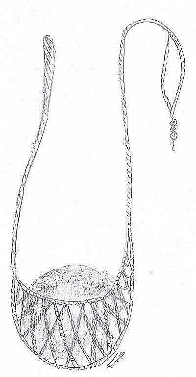 Bandring